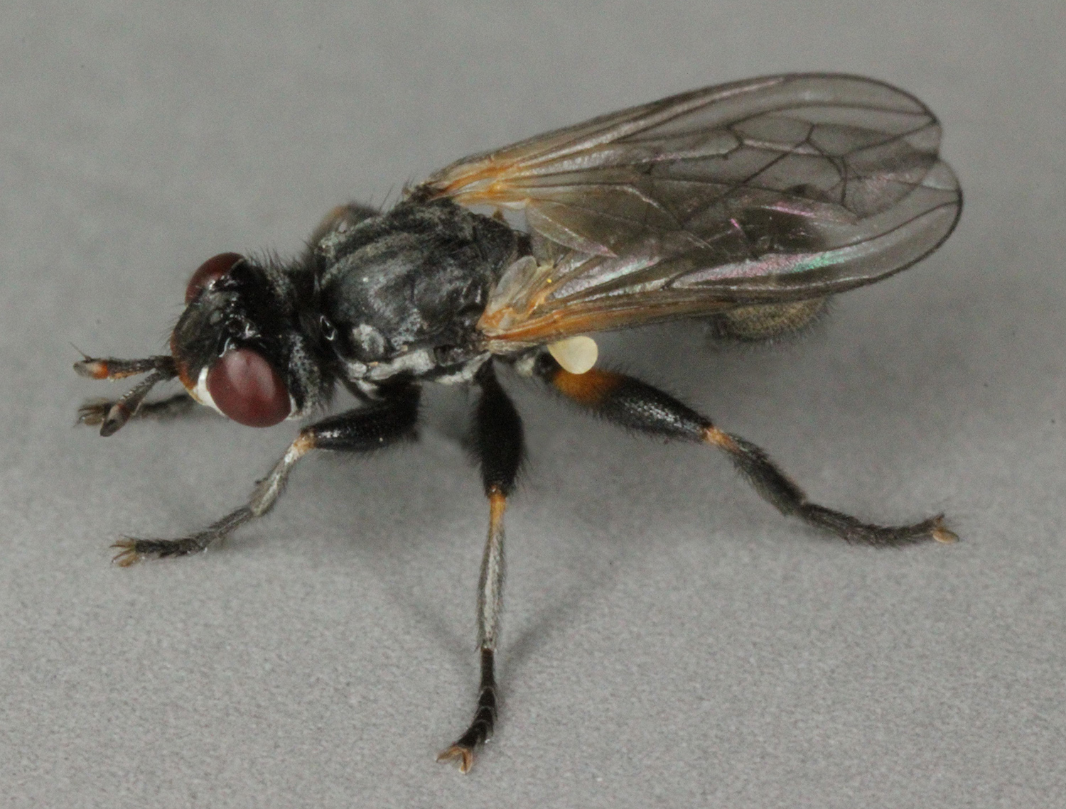 Thecophora atra, Minera Quarry, North Wales, July 2012